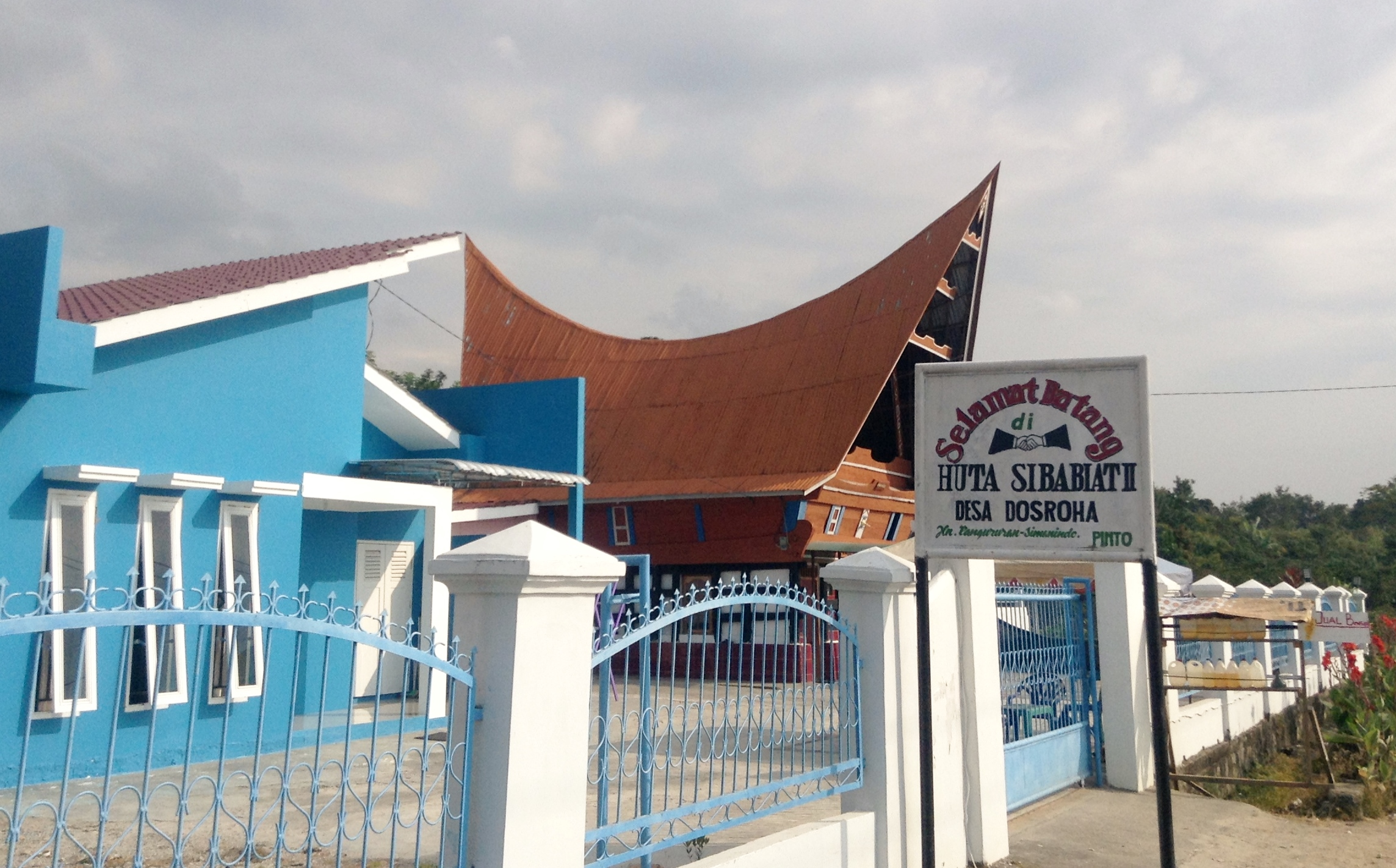 Welcome Gate To Sibabiat II, Dosroha, Simanindo, Samosir, North Sumatra, Indonesia.